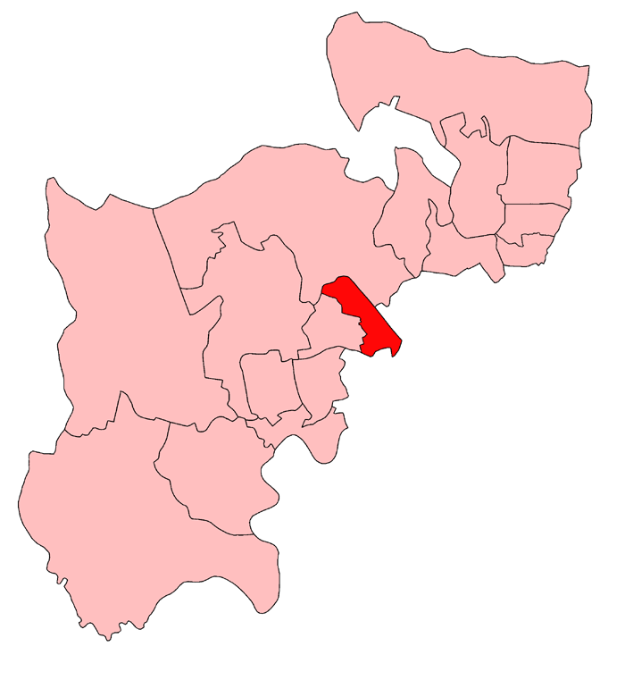 A map of Willesden East constituency within Middlesex, as it existed from 1918 to 1945.